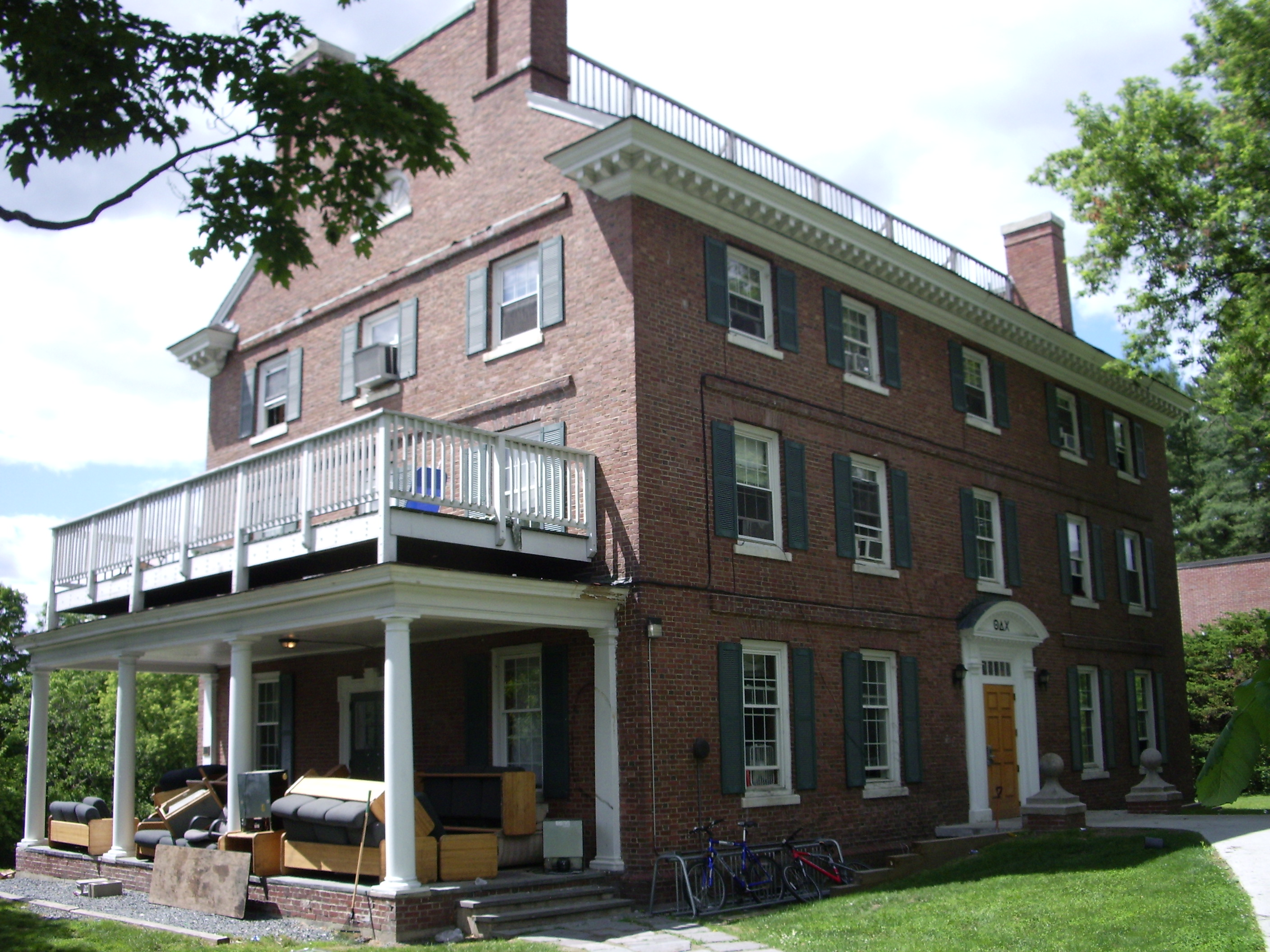 Photograph of Theta Delta Chi at the campus of Dartmouth College in Hanover, New Hampshire.